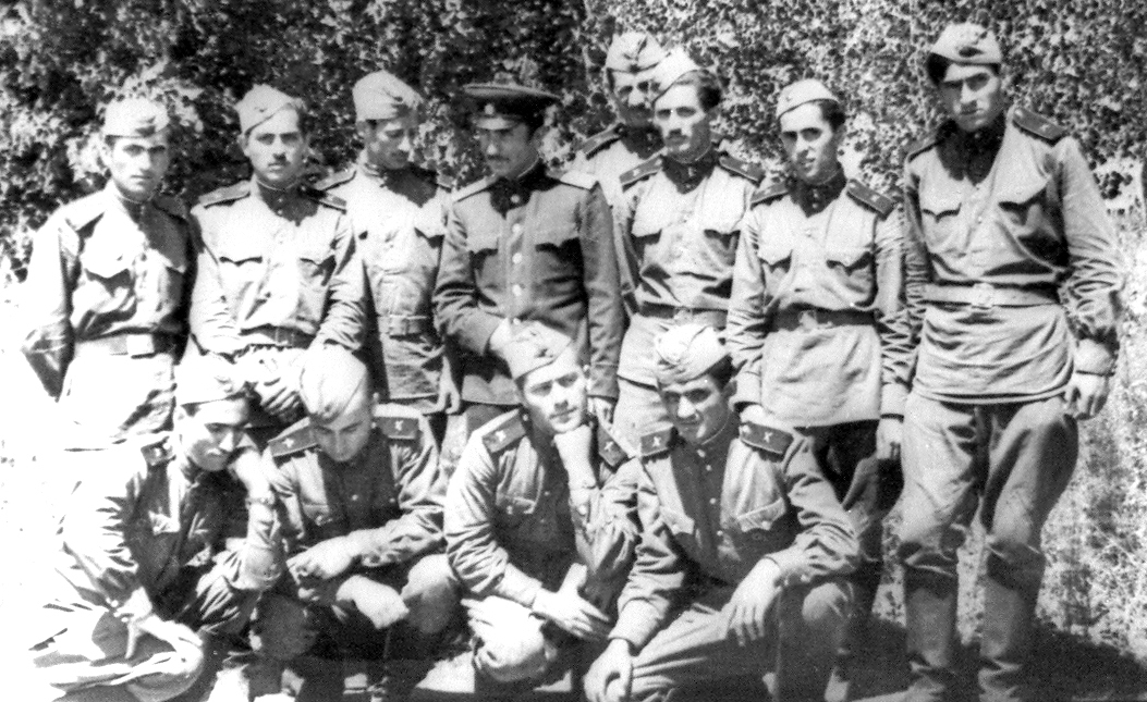 Edvard Chubaryan 75th Birthday, 05 May 2011 05, No. 35